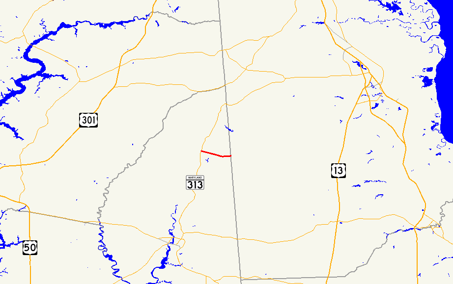 Map of Maryland Route 287